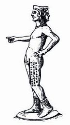 Bronze statuette from Cortona. Cortona, Museo dell’Accademia Etrusca. After Pfiffig 1975, fig. 108. Ca. 300-250 BCE.